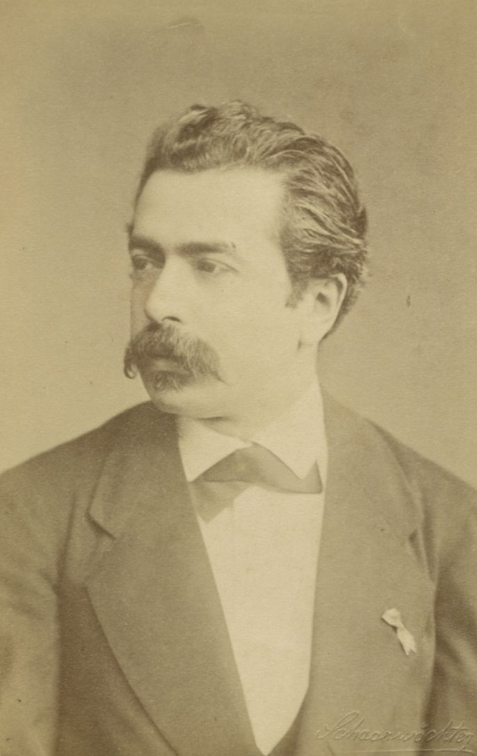 Artist: Julius Cornelius Schaarwächter Date/place: Unknown date/Berlin Subject: Józef Wieniawski Medium: Photographic posetive Notes: Polish composer. Born i Lublin 23.05. 1837 - dead in Bruxelles 11.11. 1912 Original belongs to the Archives at [#//bergenbibliotek.no/digitale-samlinger” Bergen Public Library]